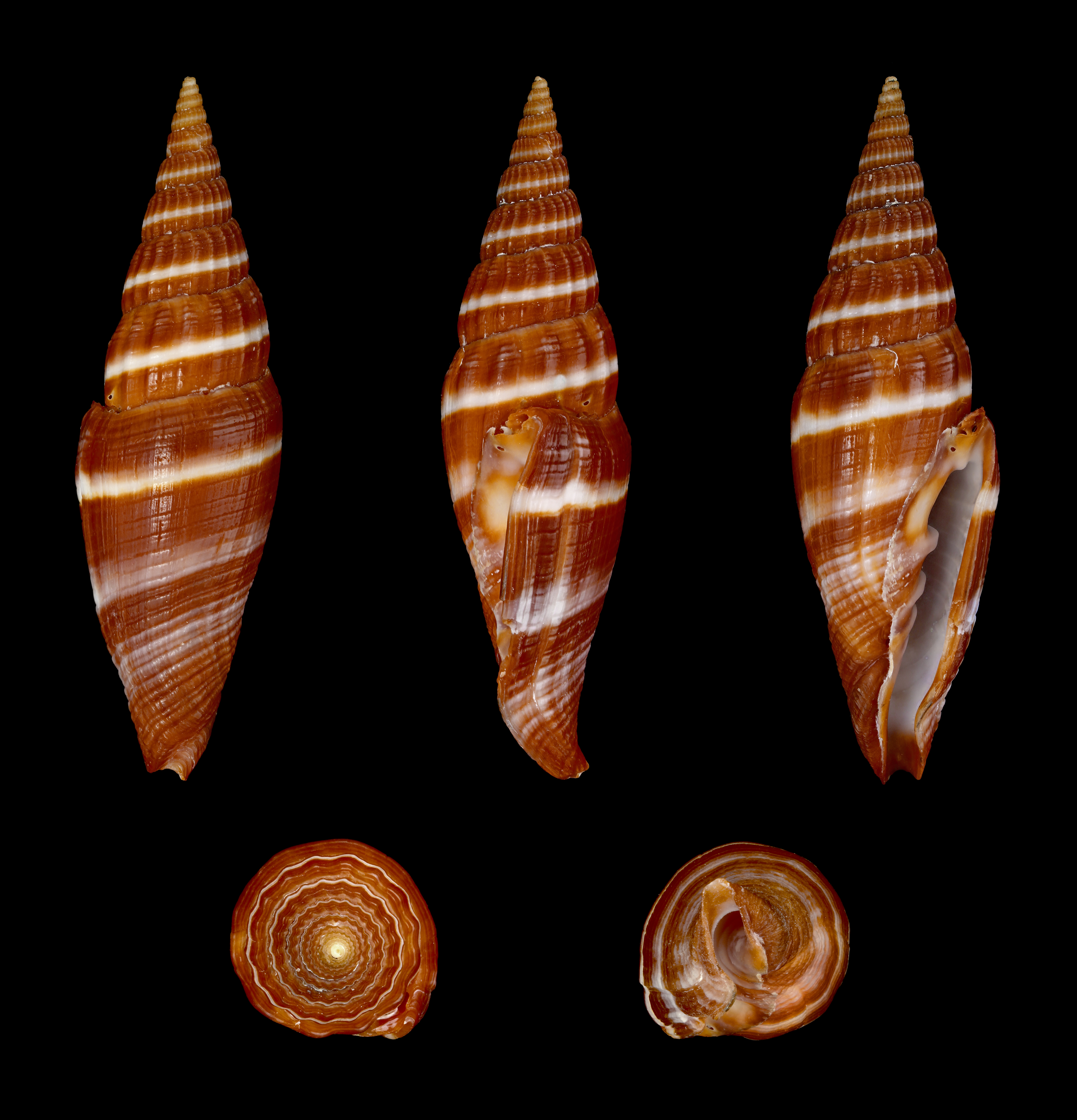 Length 5.0 cm; Originating from Bohol, Philippines; Shell of own collection, therefore not geocoded. Dorsal, lateral (right side), ventral, back, and front view.